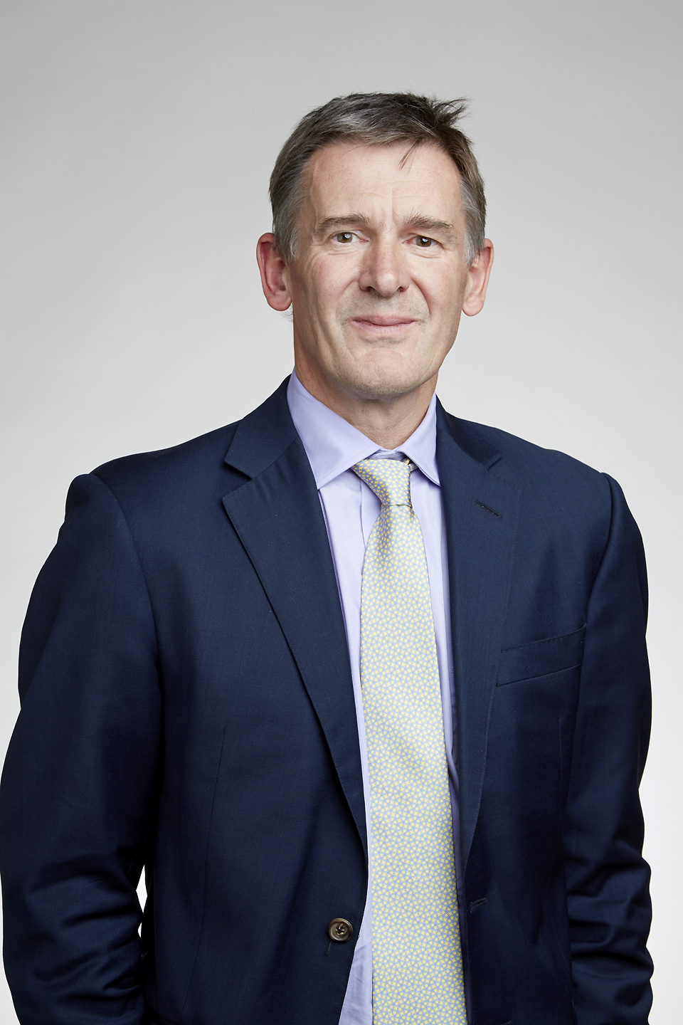 James Digby Yarlet Collier (born December 1958) FRS FREng is a microelectronics engineer and Chief Technology Officer (CTO) of Neul Limited. Attribution: The Royal Society